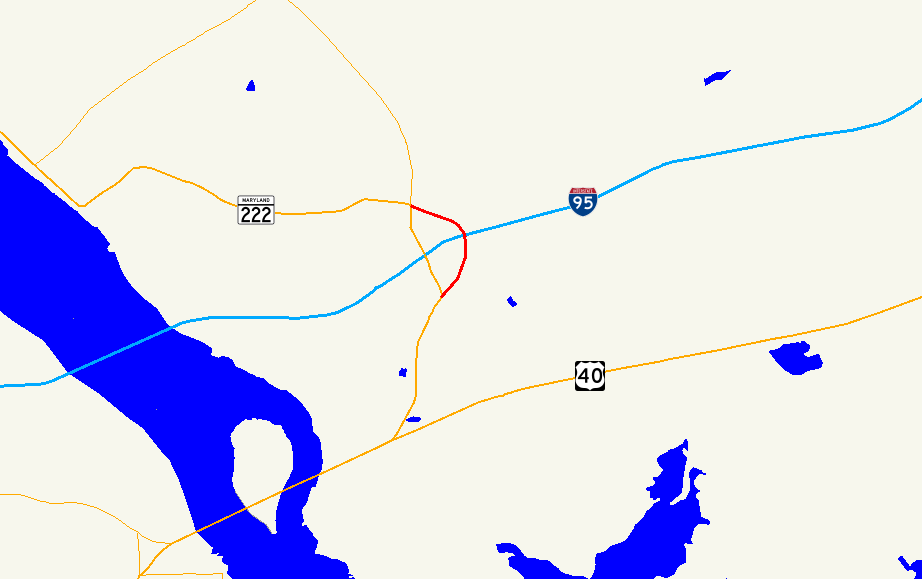 Map of Maryland Route 824